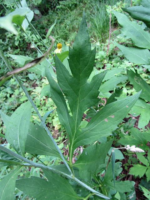 Found in Porcupine Mountains State Park, Michigan.